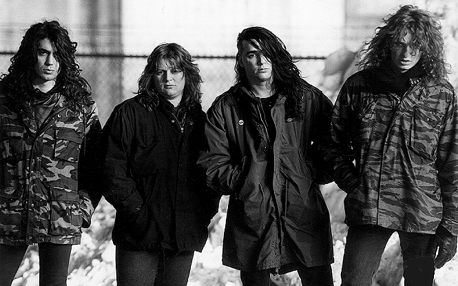 Voïvod in 1986.